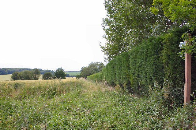 Footpath to Hartest. From the minor road at Audley End (the Suffolk one, not the Essex version).